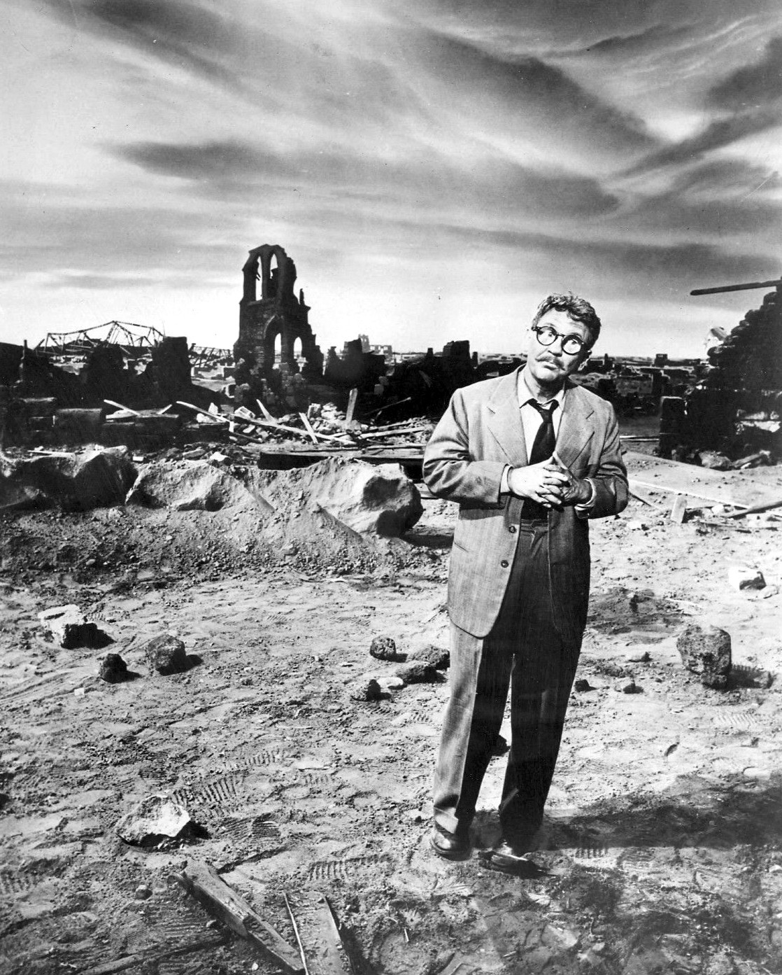 Photo of Burgess Meredith from The Twilight Zone episode "Time Enough at Last".